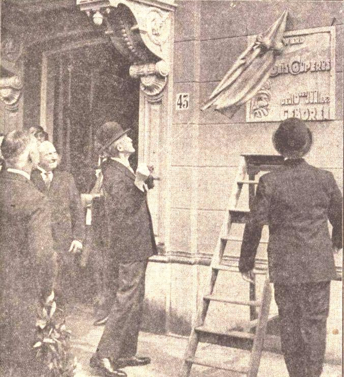 Onthulling van een gedenksteen op het geboortehuis van Louis Couperus door burgemeester Jacob Adriaan Nicolaas Patijn, een initiatief van het Louis Couperus Genootschap